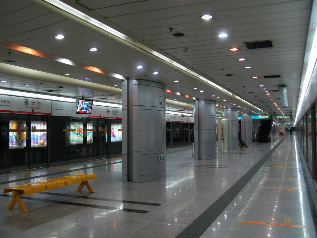 Line 1 Platform of Yanchang Road Station